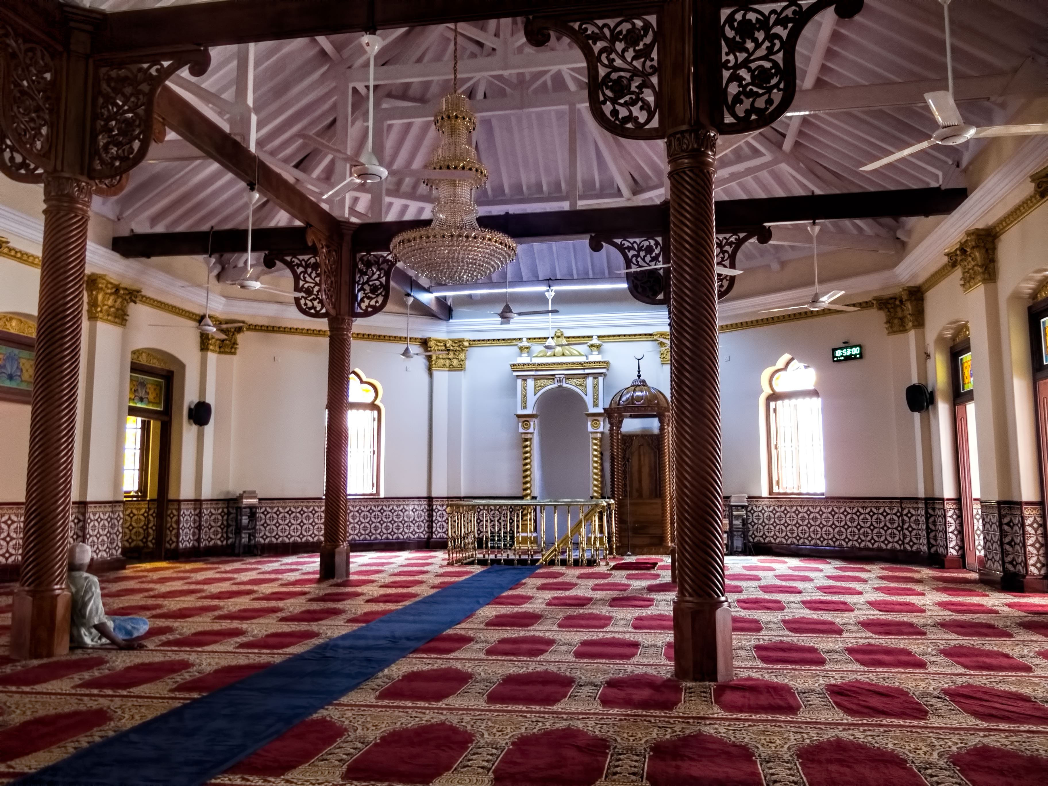 The upstairs prayer room of the Jami-Ul-Alfar Mosque which dates from 1909 (but has experienced additions and updates since then). About 10% of the population is Muslim (mainly Sunni). On Google Earth: Jami-Ul-Alfar Mosque 6°56'18.21"N, 79°51'6.04"E